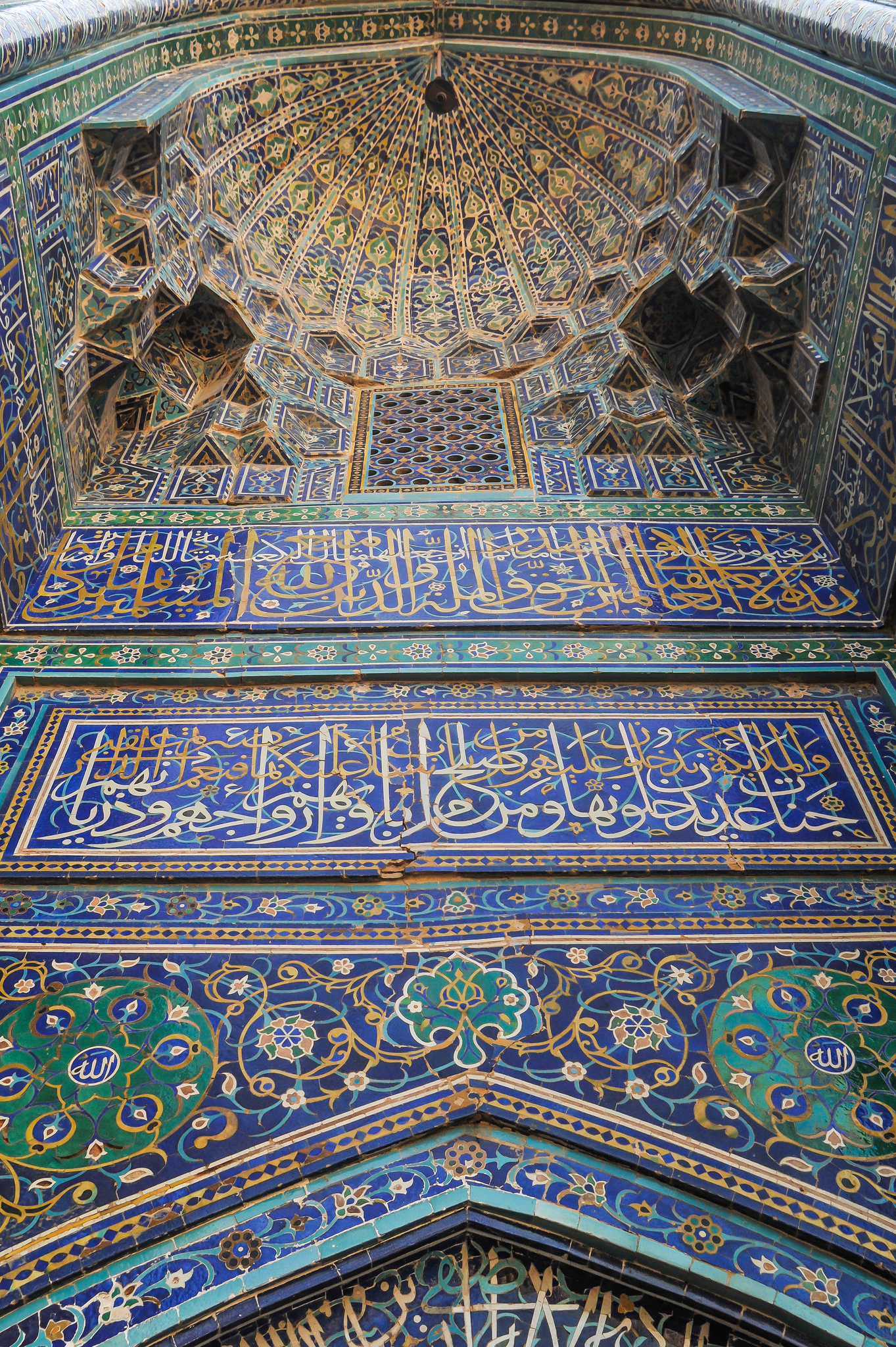 Sheikh Safi al-Din Tomb- Ardebil (or Ardabil) - Azarbaijan Province of Persia (Iran) - 2009 - Photo : Dena Barmas/PDN